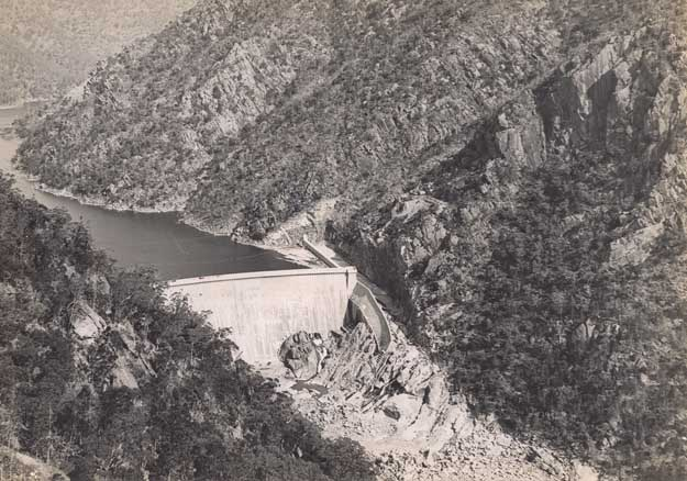 Burrinjuck Dam on the Murrumbidgee River Dated: No date Digital ID: 12932_a012_a012X2449000135 Rights: We'd love to hear from you if you use our photos. Many other photos in our collection are available to view and browse on our website using Photo Investigator.